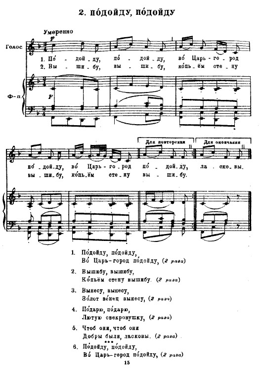 Balakirev 2 Podoidu, podoidu a Russian Folk Songs